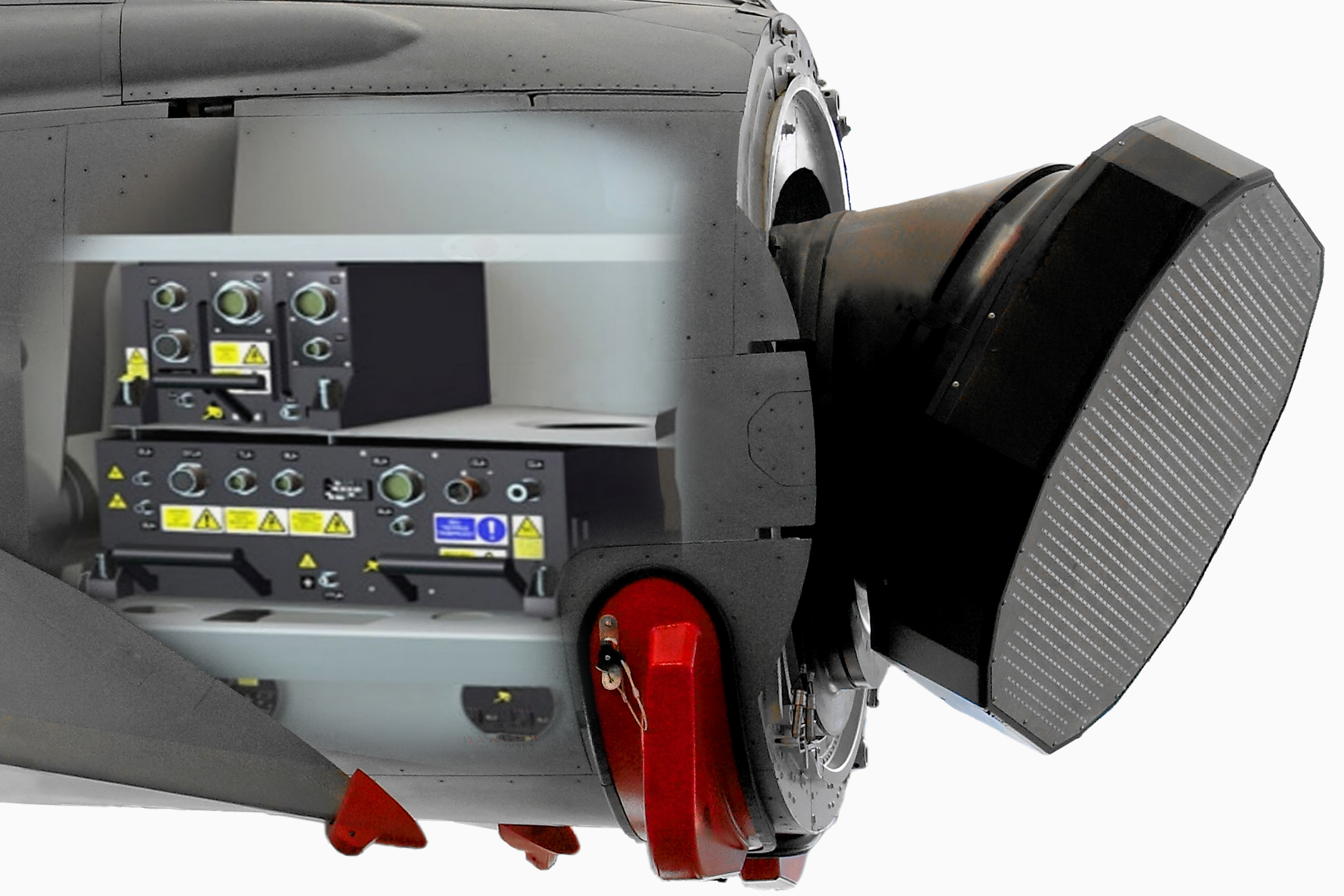 Module of the Eurofighter AESA antenna CAPTOR-E with Wide Field of Regard Repositioner, Power Supply and Control situated behind.